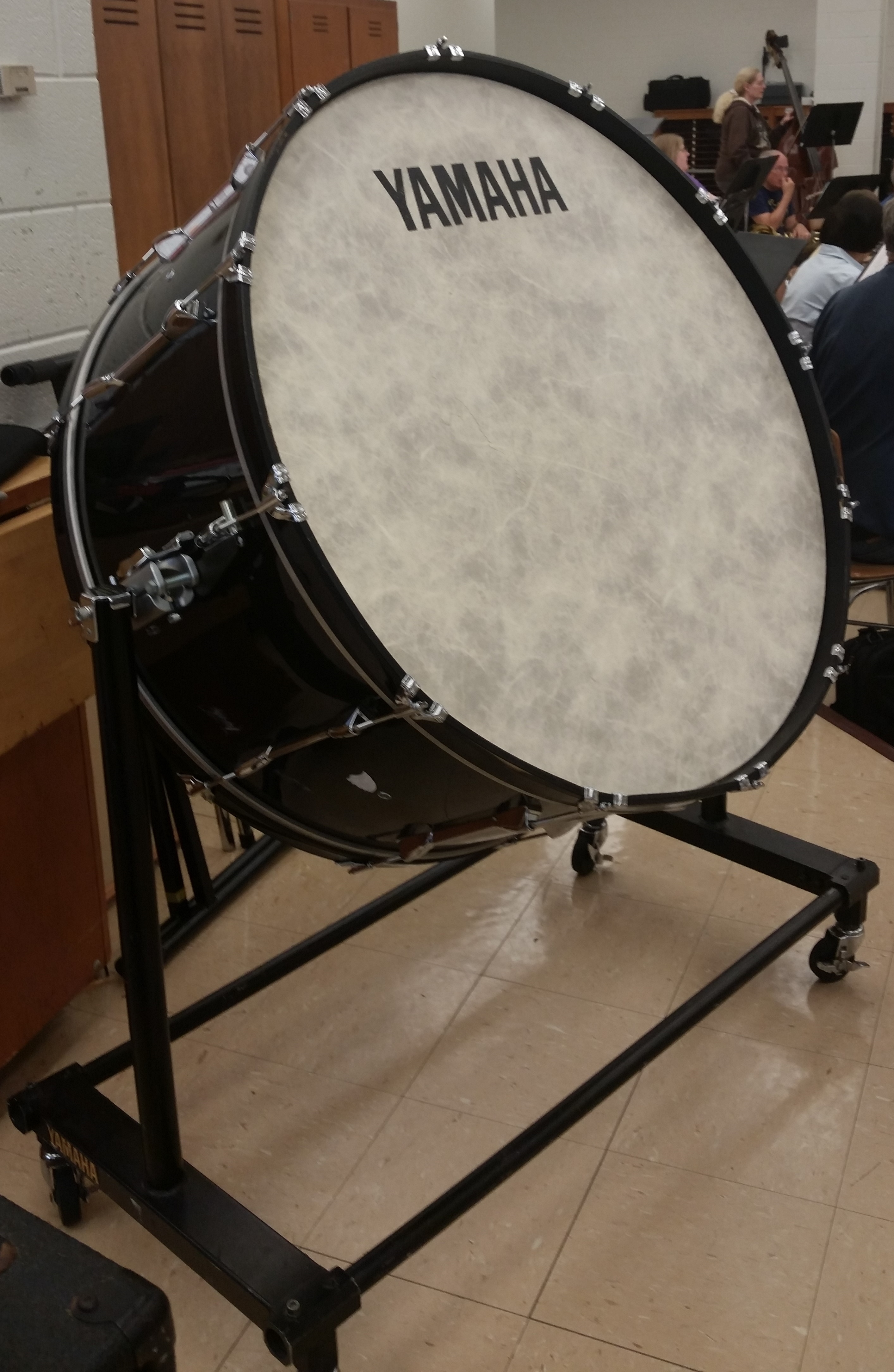 This is a typical mounted bass drum used for concert bands and orchestras.